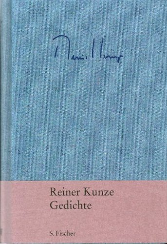 Book cover of Reiner Kunze "Gedichte" 2001